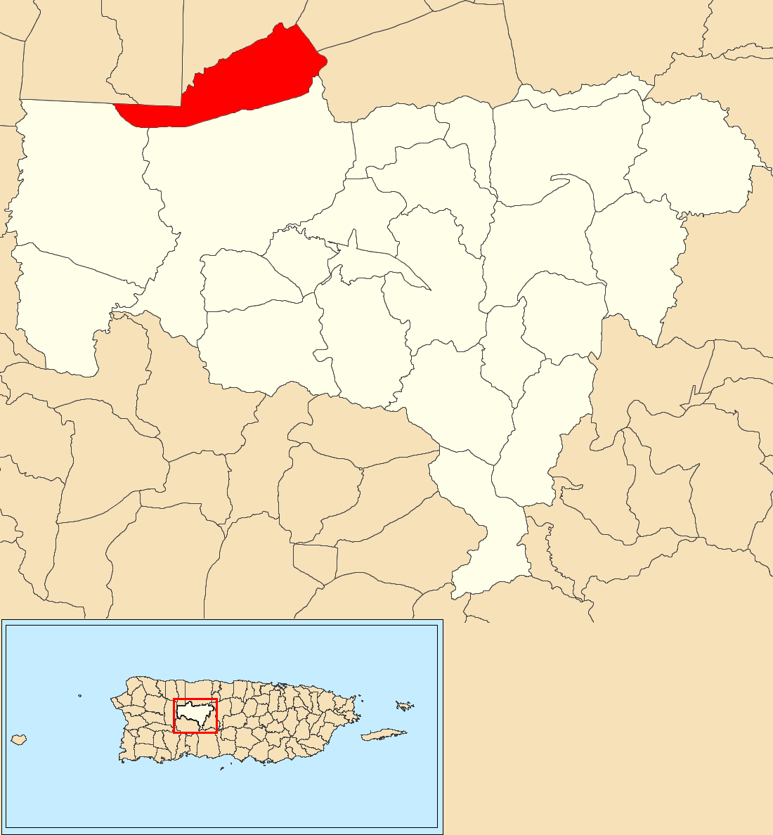 Santa Rosa, Utuado, Puerto Rico locator map scale is 102,000